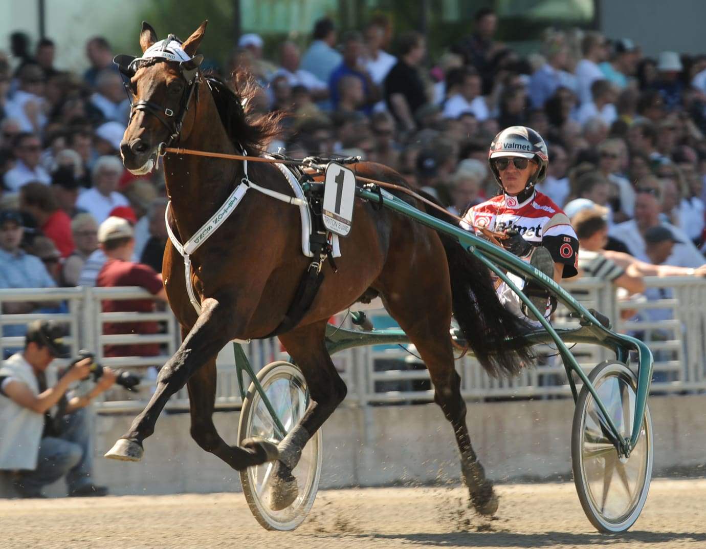 Trotting horse Triton Sund and driver Örjan Kihlström at Solvalla, Sweden 2010.